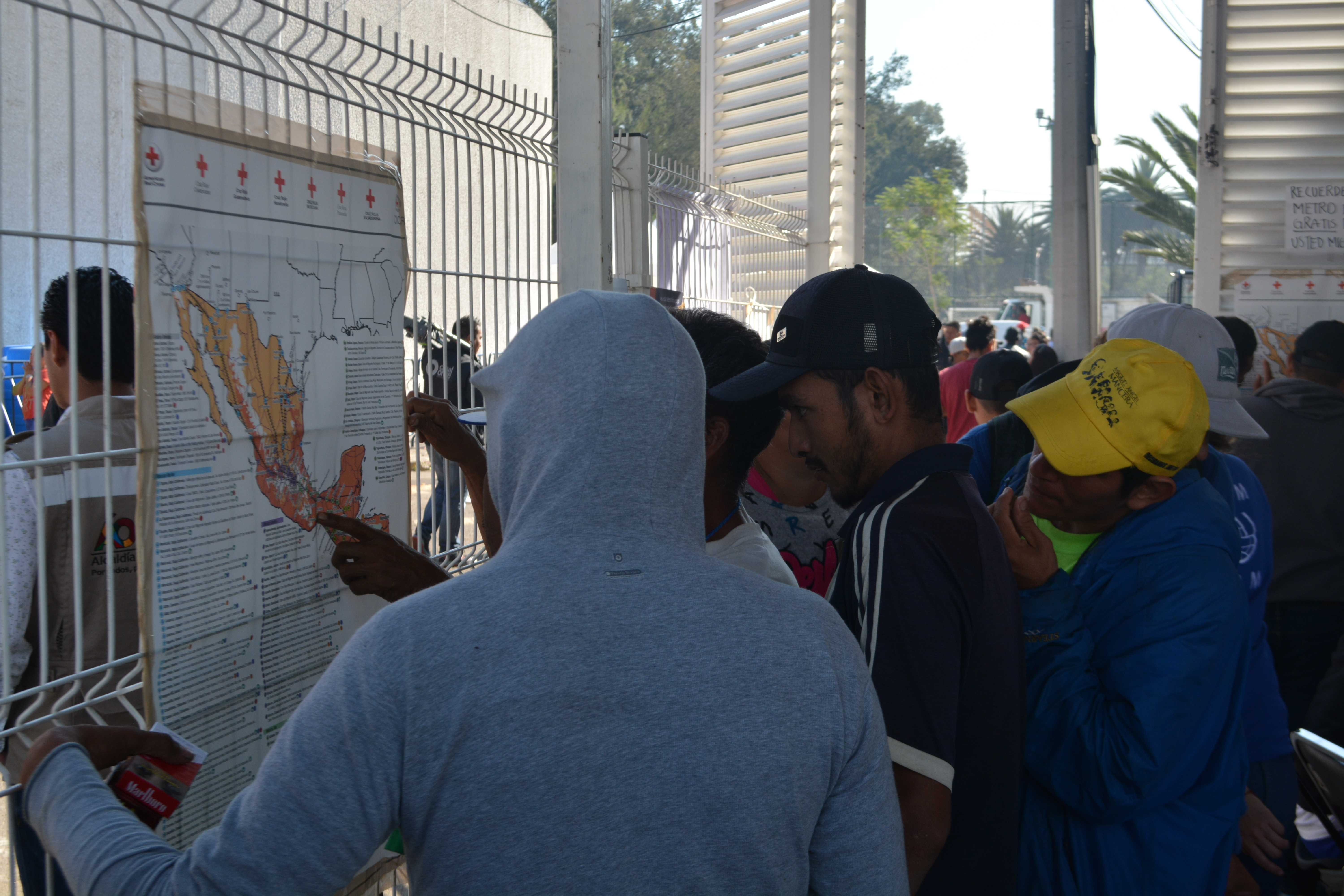 Migrants looking for routes on a map of Mexico. Ciudad Deportiva Magdalena Mixhuca temporary camp, Mexico City.